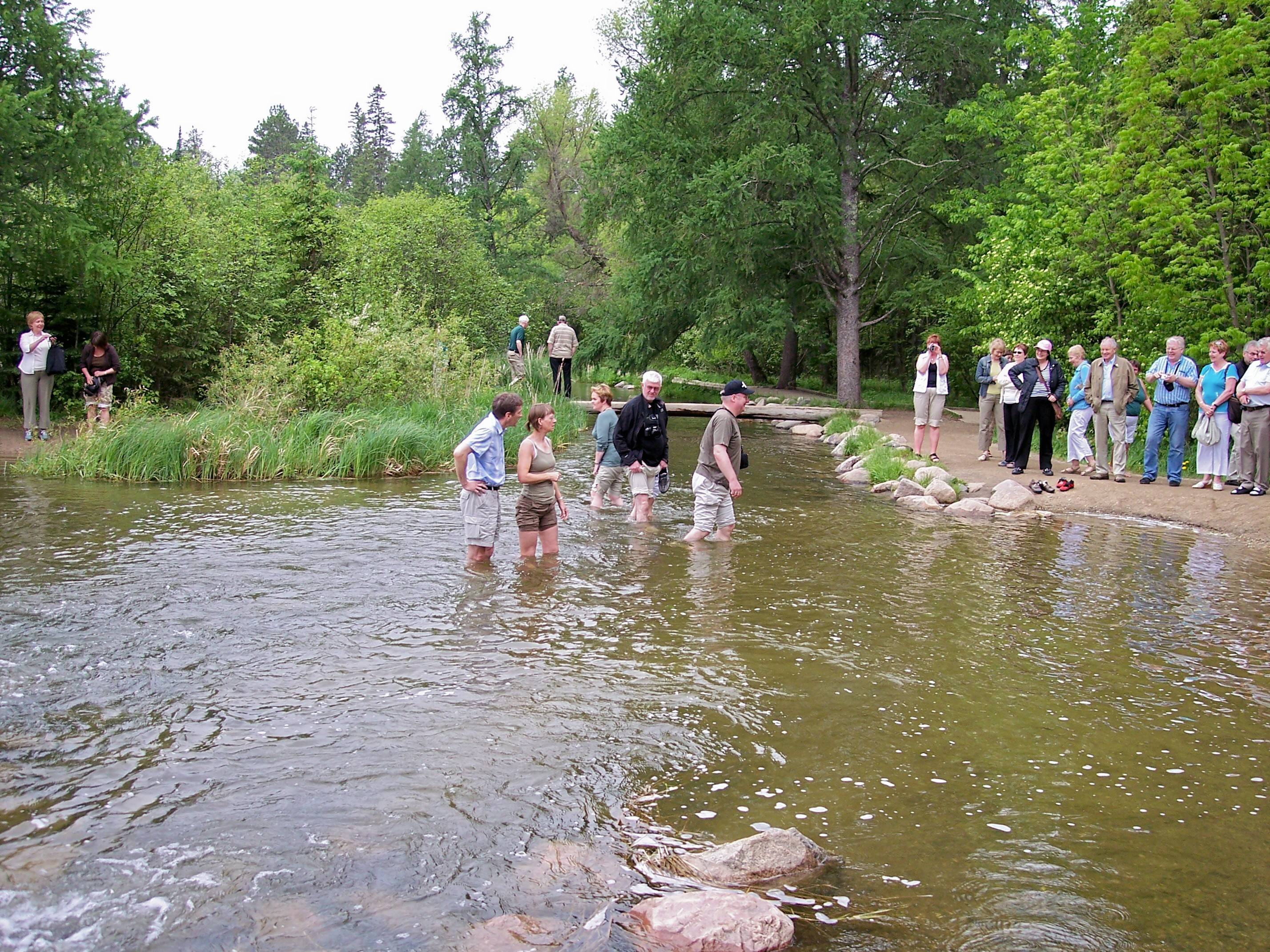 Tourists wade the Mississippi River near its source in Lake Itasca in Itasca State Park